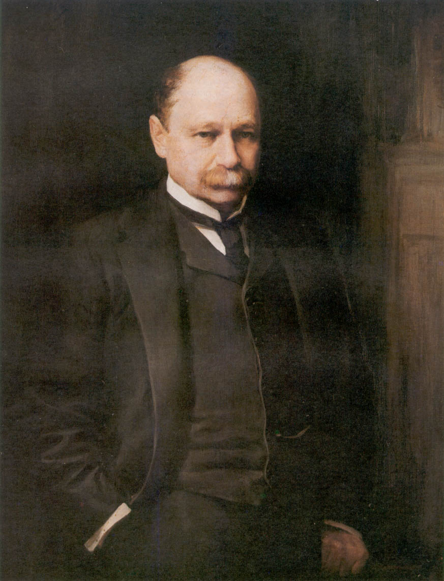 Daniel S. Lamont, 39th United States Secretary of War. Oil on canvas, 42" x 29"